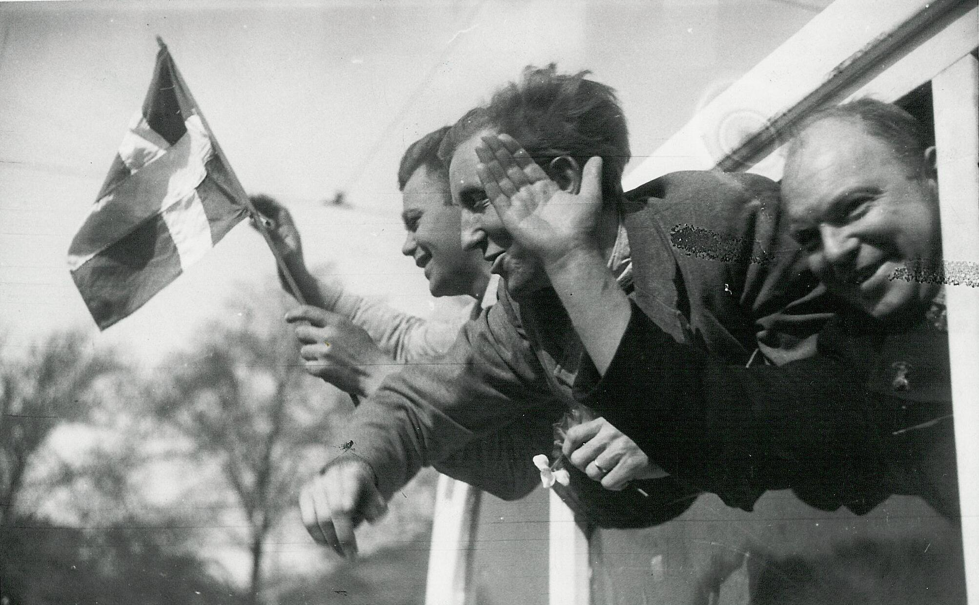 More images from The Museum of Danish Resistance